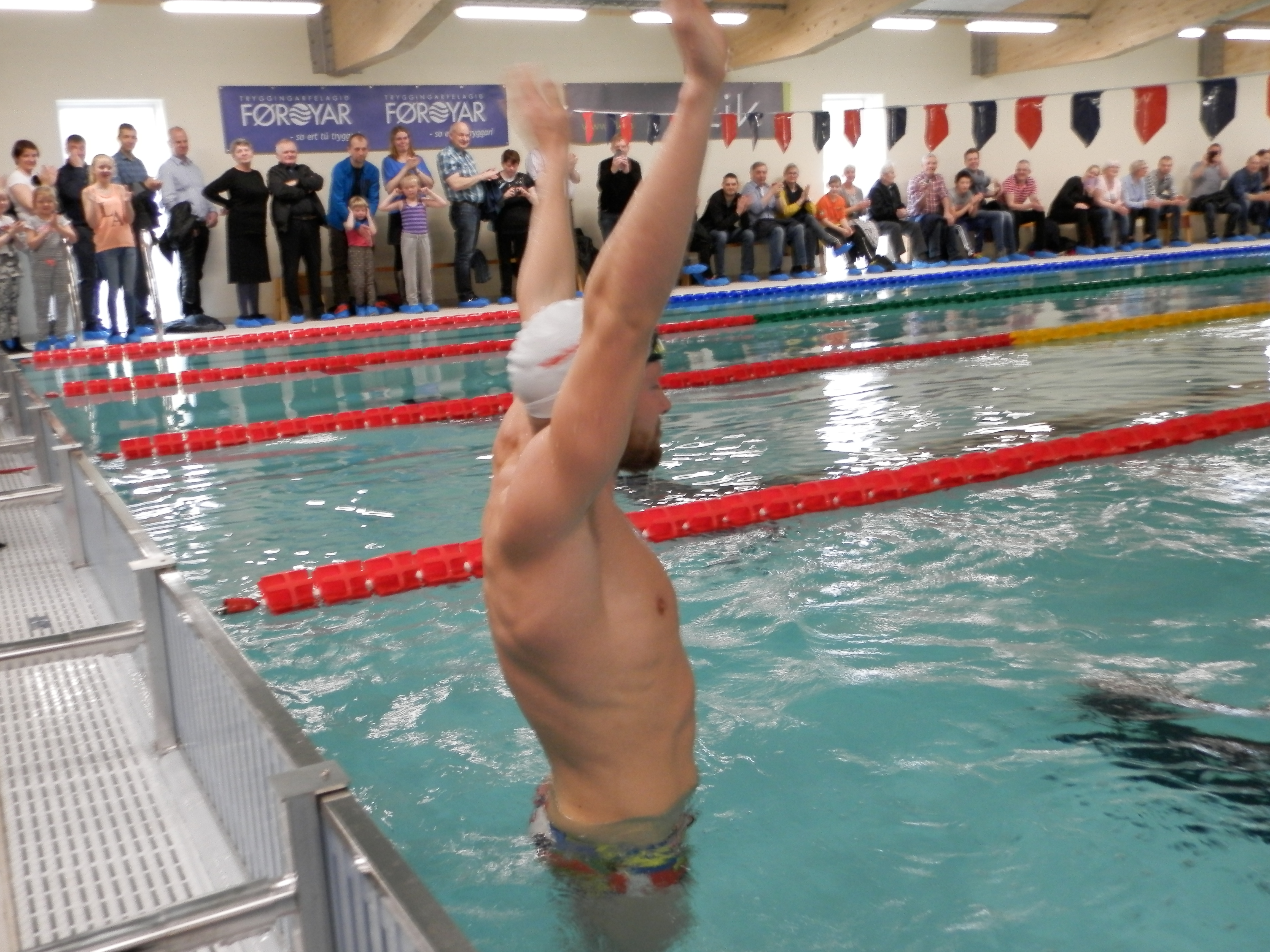 Páls Høll is the first 50-meter swimming pool in the Faroe Islands. It was built in Vágur from 2012 until 2015 and opened officially on 17 October 2015. It is named after Pál Joensen, who is - until now - the best Faroese swimmer ever and the only Faroese swimmer who has competed at the Olympics. The swimming pool is heated with the warm water from the SEV-electricity power plant, Vágsverkið, which until the hall was built was running into the sea. Pál Joensen was the first to swim a length in the pool during the opening ceremony.